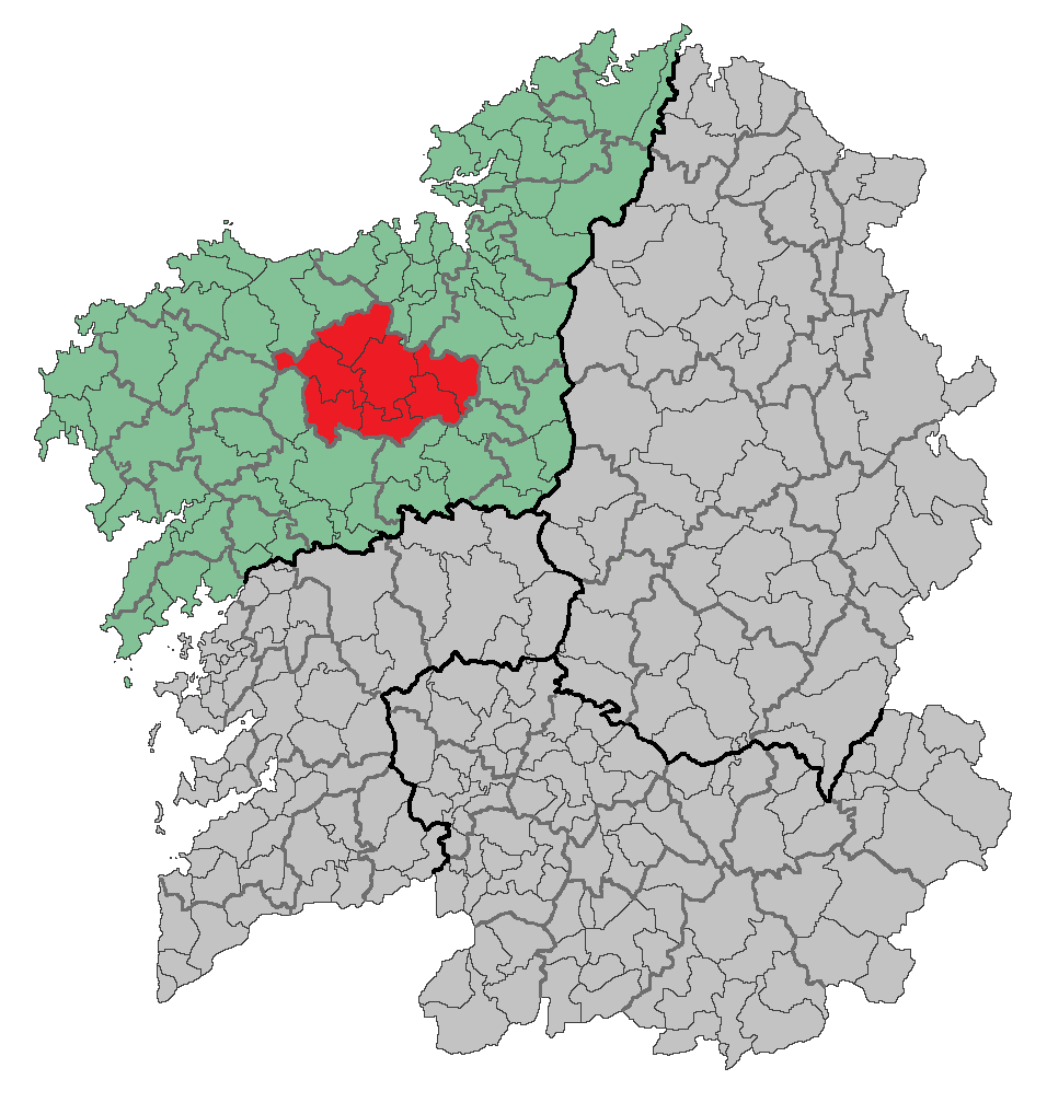 Region of Galicia (Spain)Based in: Image:Location of Ordes.png Source: Designed by Leoplus. Original picture, designed by Caiser over a work made by Alyssalover.